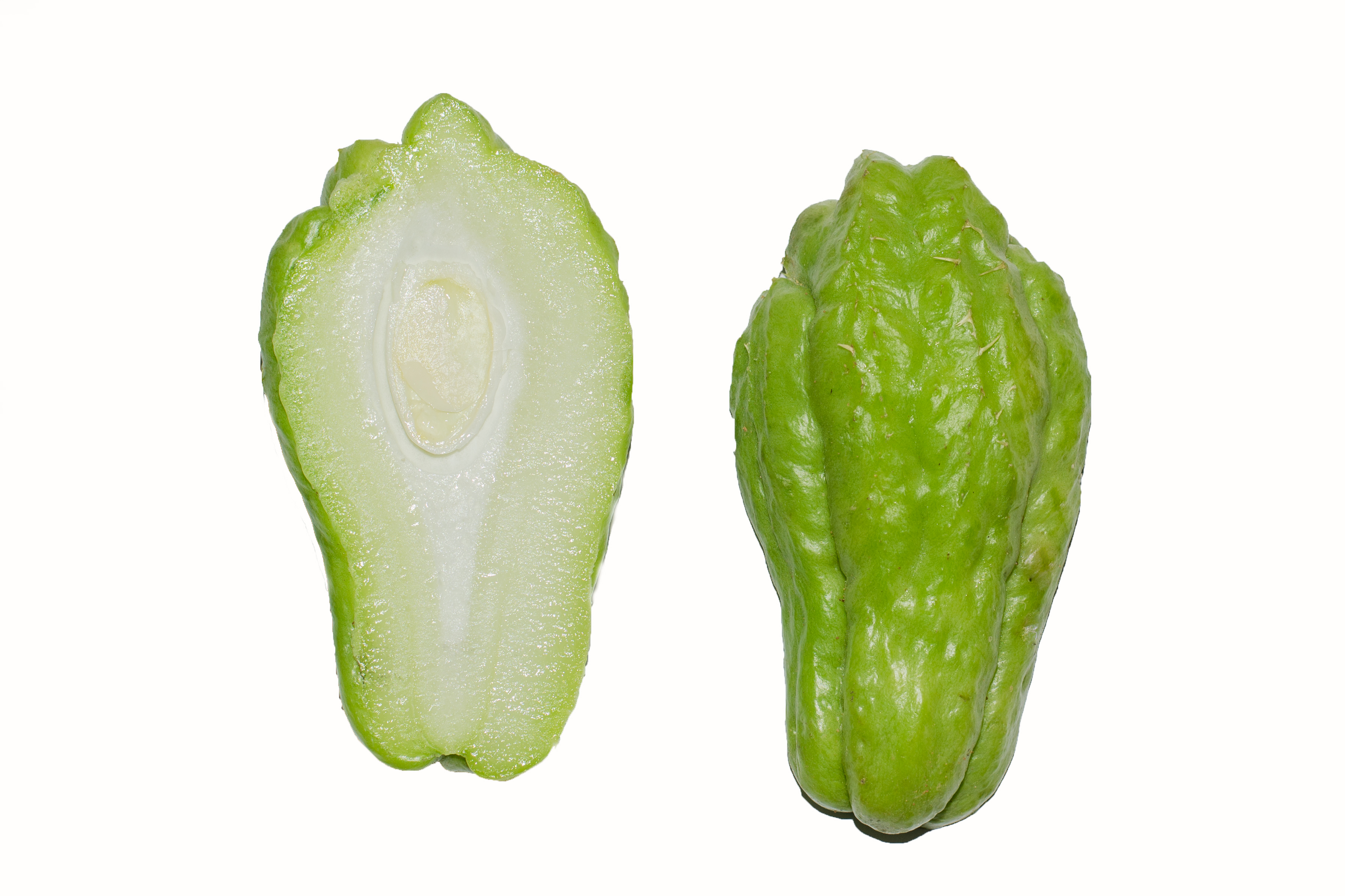 Chayote cross section